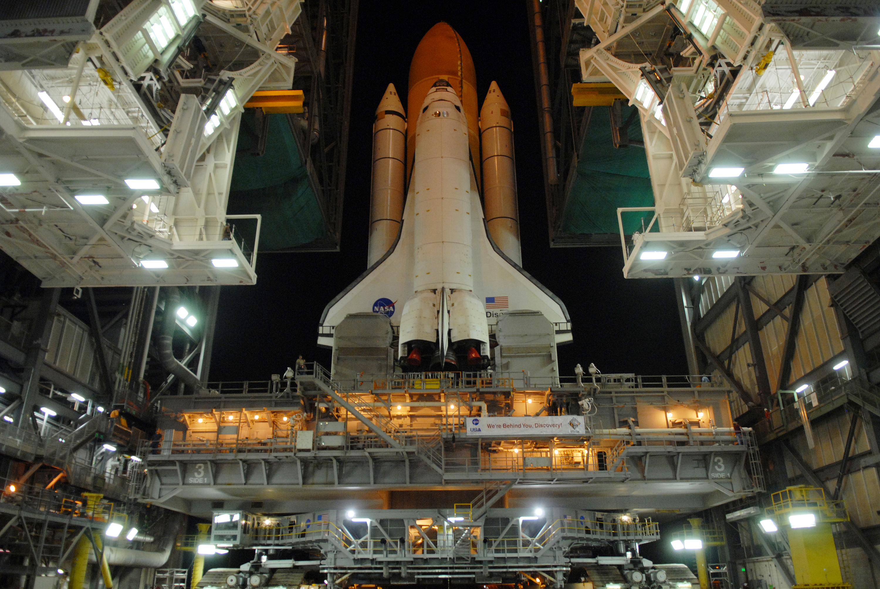 CAPE CANAVERAL, Fla. -- Getting ready for the STS-124 mission, space shuttle Discovery, atop a mobile launch platform, begins rollout to Launch Pad 39A at NASA's Kennedy Space Center. The 3.4-mile journey from the Vehicle Assembly Building began at 11:47 p.m. on May 2. After arriving at the pad, the shuttle was secured, or hard down, at 6:06 a.m. EDT May 3. On the 13-day mission, Discovery and its crew will deliver the Japan Aerospace Exploration Agency's Japanese Experiment Module – Pressurized Module and the Japanese Remote Manipulator System. Launch is targeted for May 31.